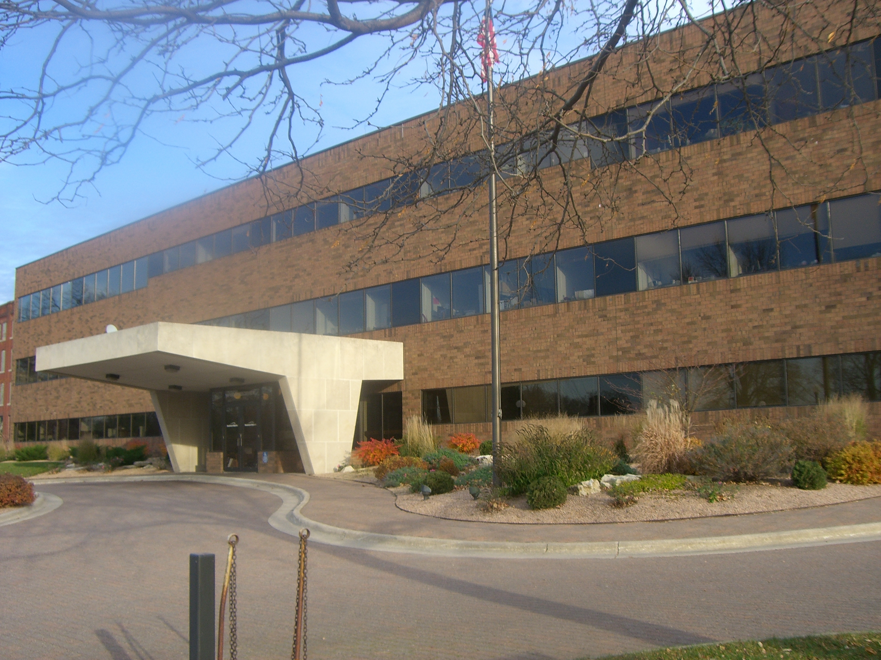 The front entrance of 100 Harborview Drive in La Crosse, WI. Once the corporate headquarters of the G. Heileman Brewing Company, now the location of Reinhart Foods, among other businesses.